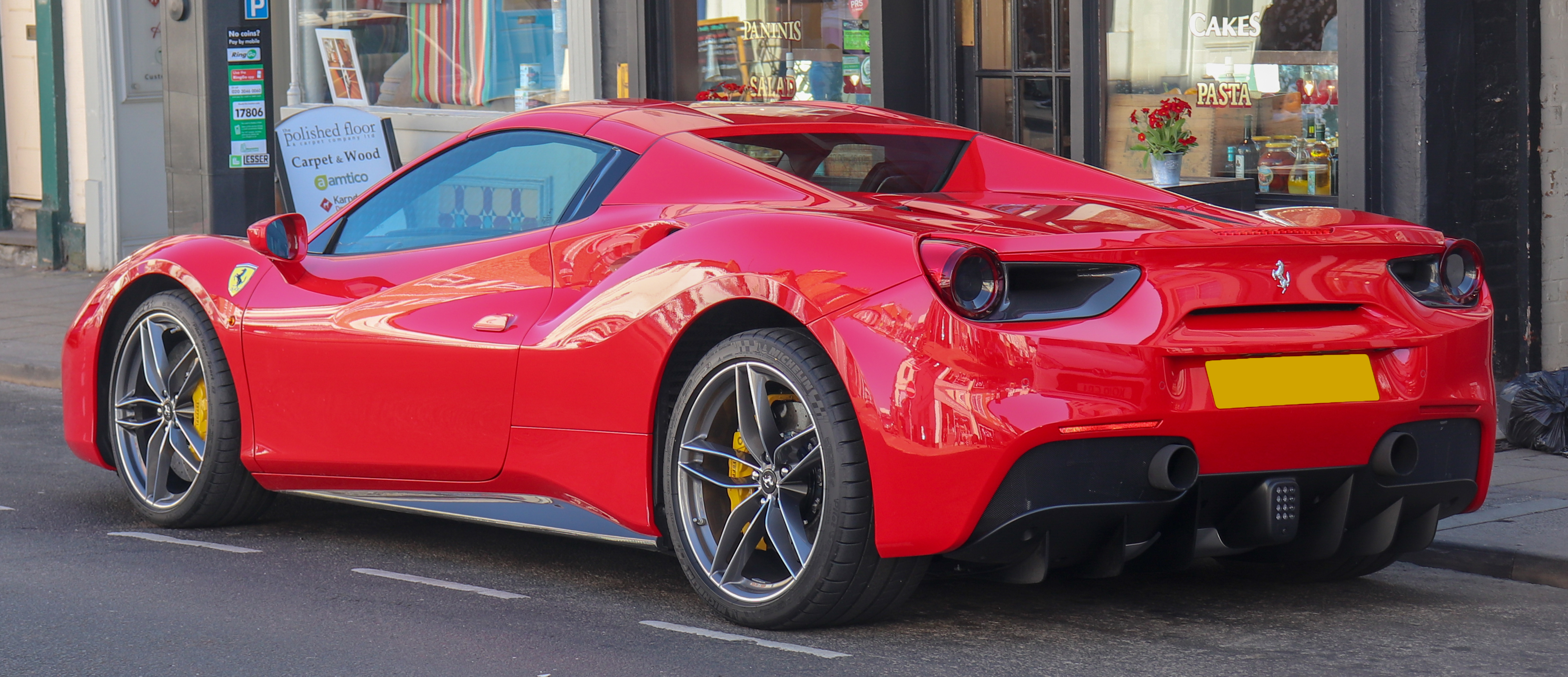 2018 Ferrari 488 GTB Spider S-A 3.9 Rear Taken in Leamington Spa